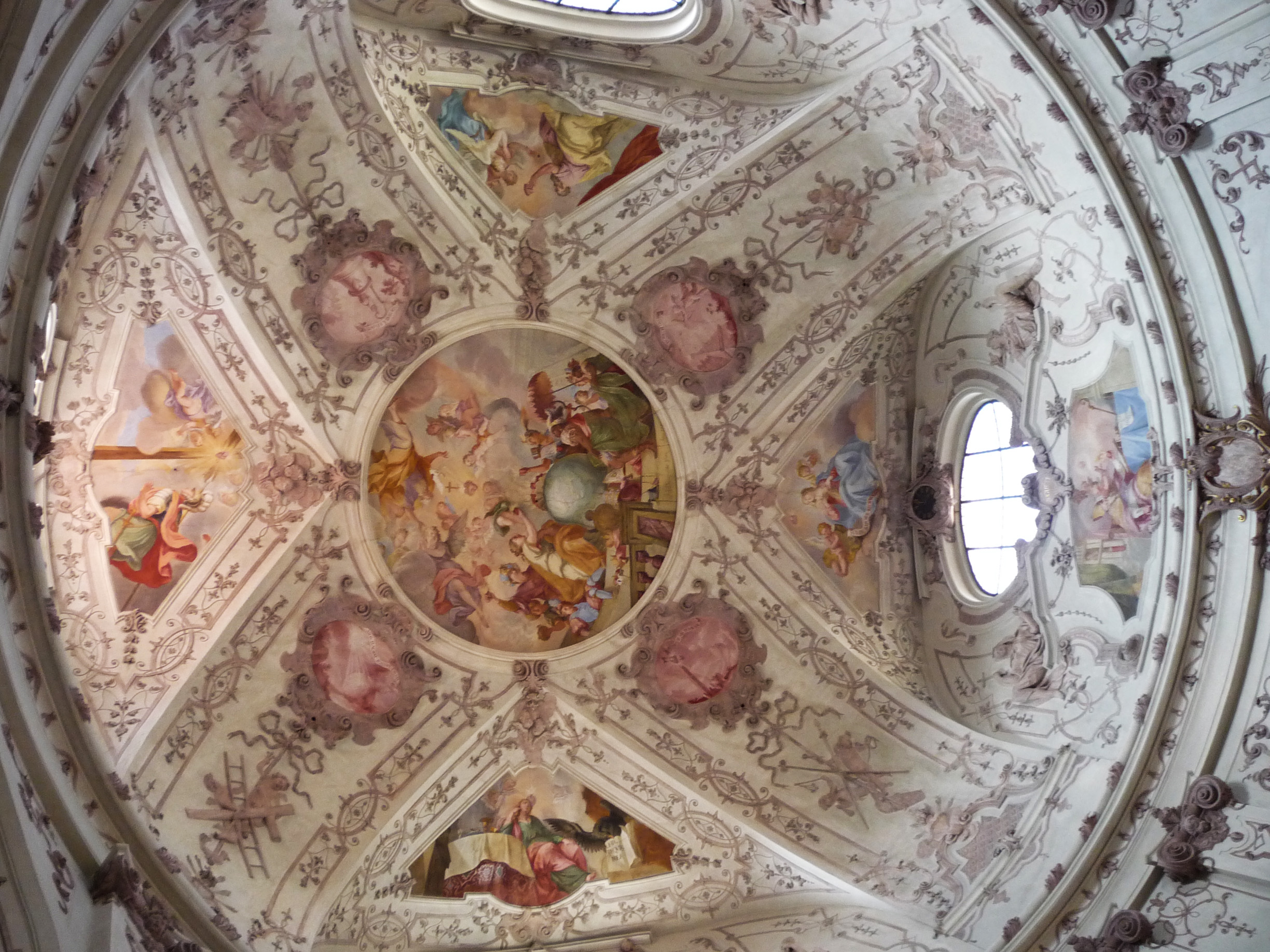 Eichstätt, church "Notre Dame de Sacre Coeur"